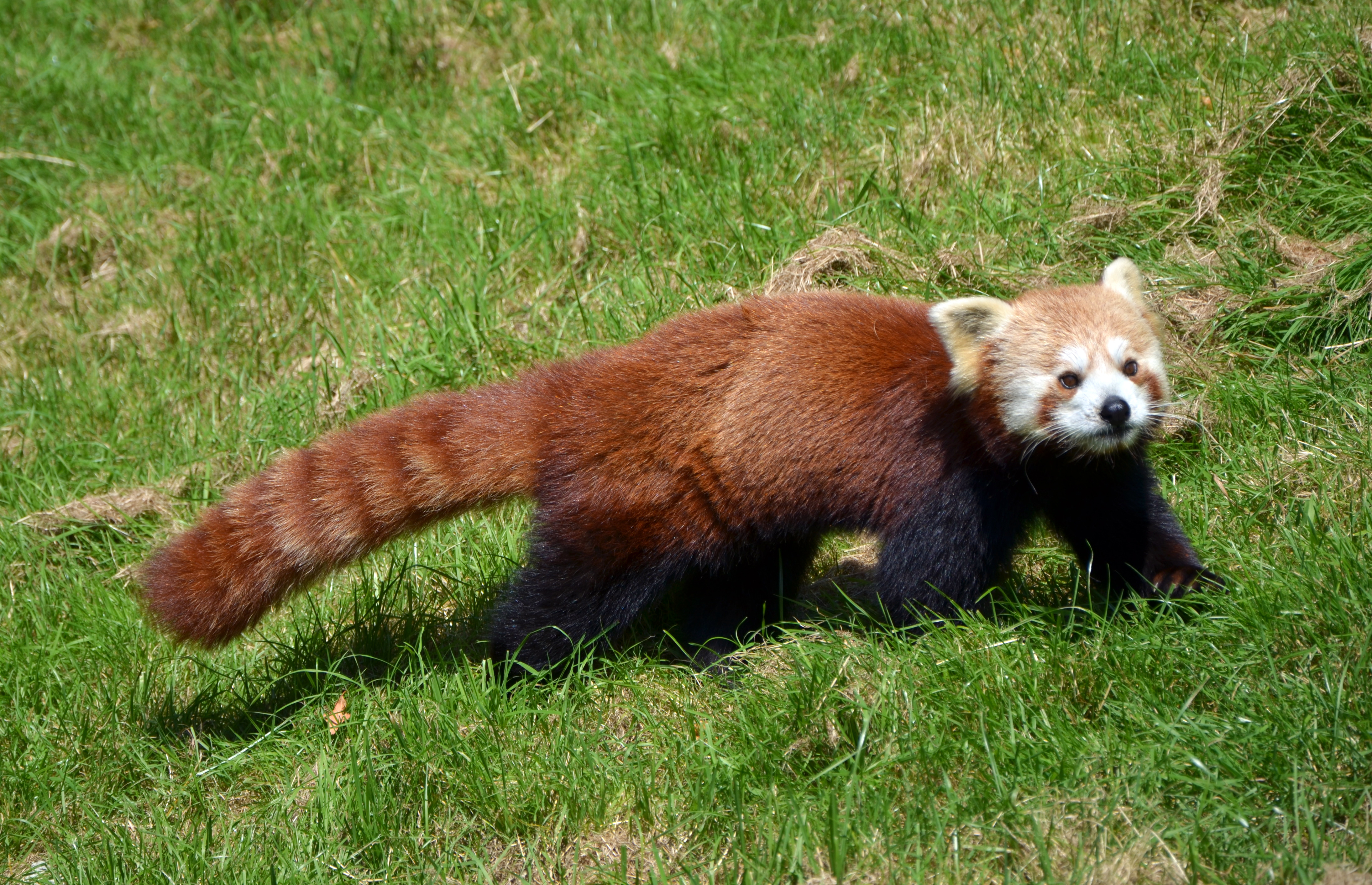 Red panda (Ailurus fulgens) in the zoologic park of de Lisieux (France)